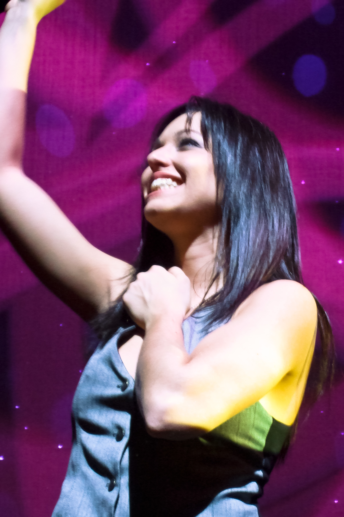 French singer Natasha St-Pier singing at l'Olympia, in Paris, during her 2006/2007 tour.